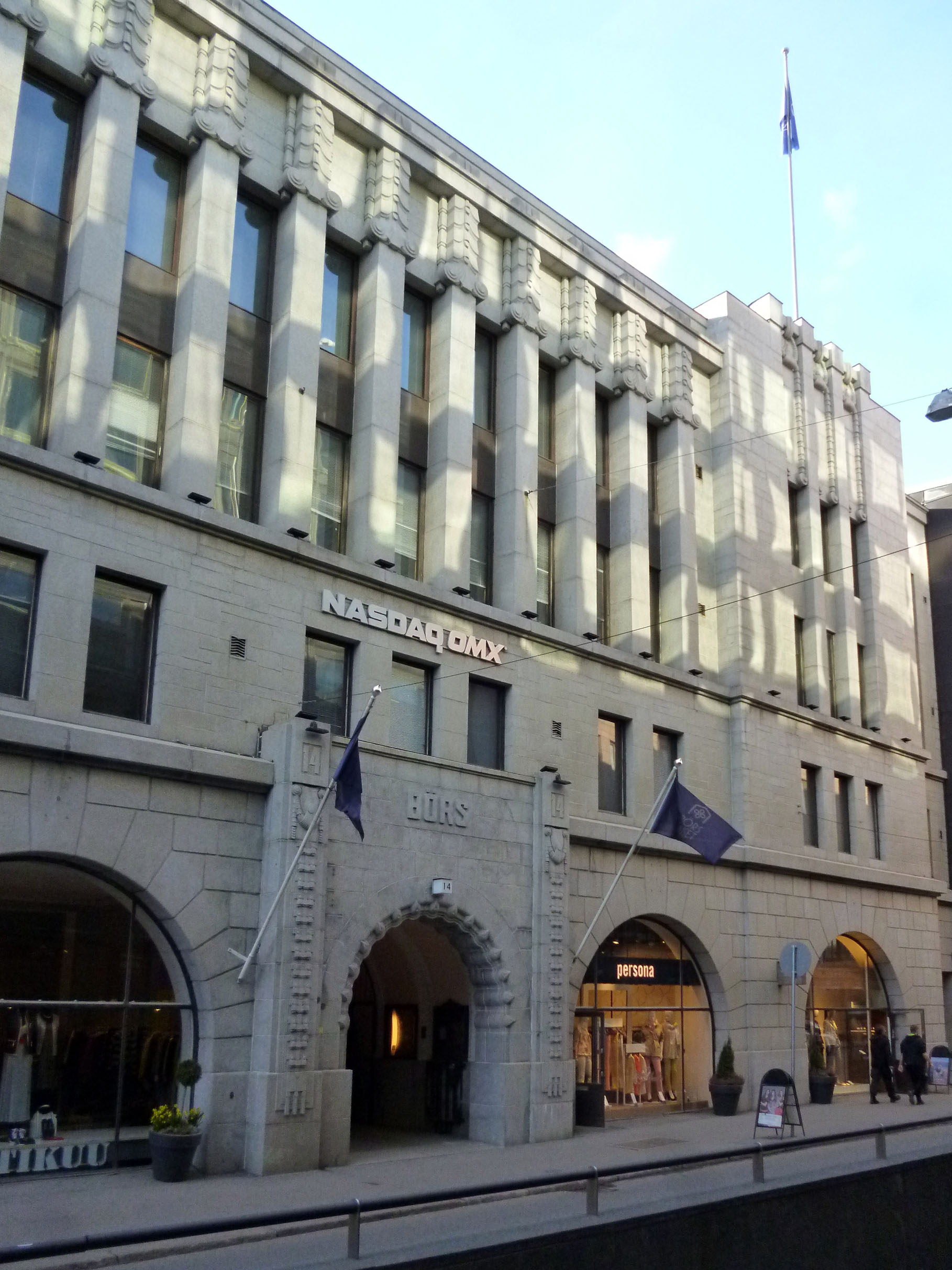 Lars Sonck, Helsinki Stock Exchange, Fabianinkatu 14, Helsinki, 1911